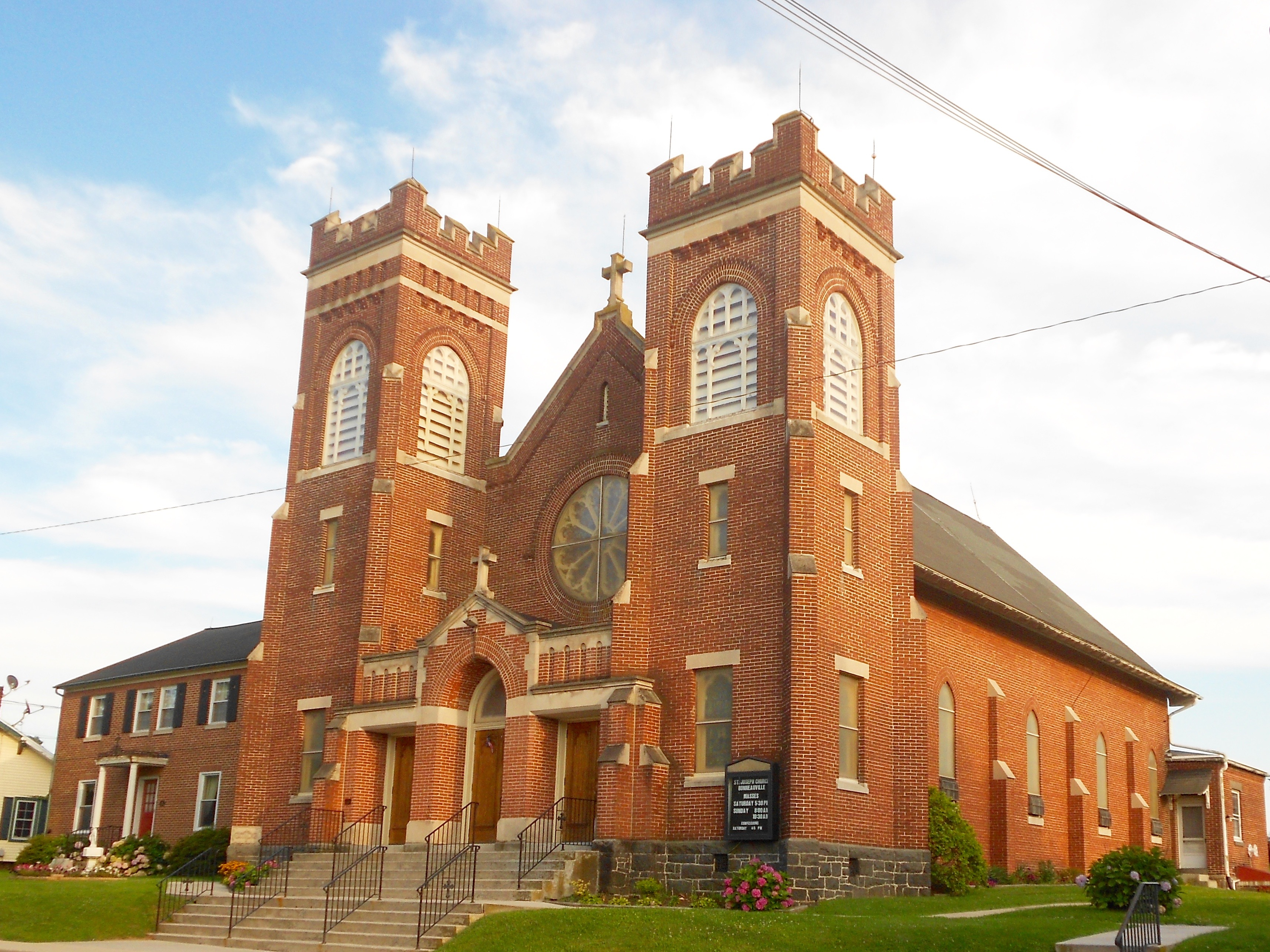 St. Joseph Catholic Church in Bonneauville, Adams County, Pennsylvania